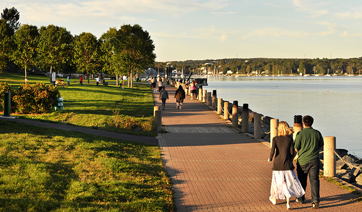 Dewolfe Park sea wall, Bedford